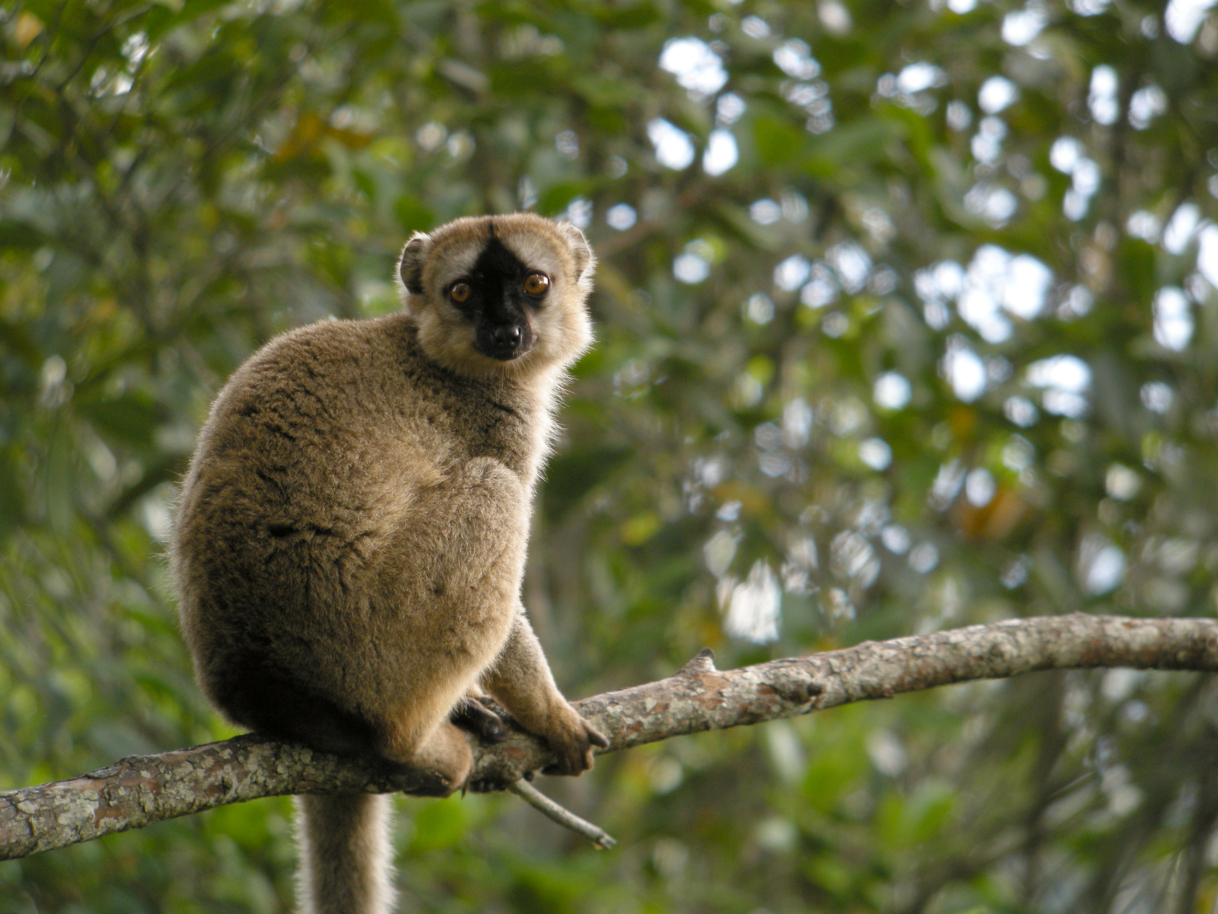 Brown Lemur, Mantadia, Madagascar Swarowski 80 HD 30 X, Coolpix P5100 (Adapter DCB)